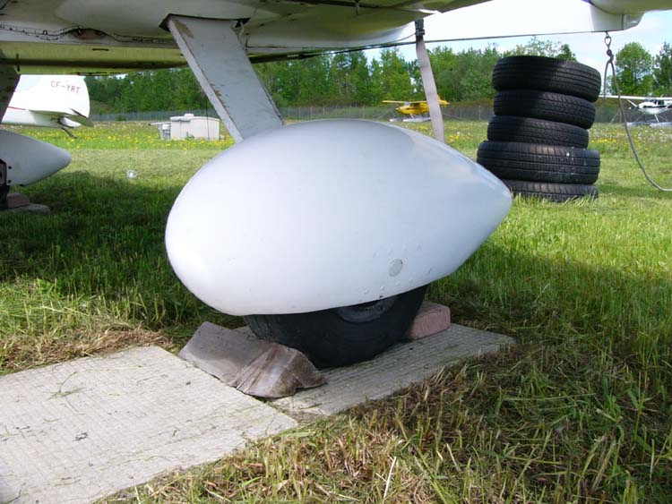 I took this photo on 27 May 2006 I took this photo on 27 May 2006